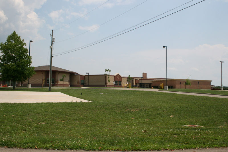 Front of Alexander High School, seen from Ayers Road northeast of Albany in Alexander Township, Athens County, Ohio, United States.